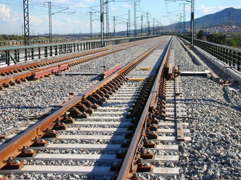 Expansion joints on the Madrid-Zaragoza-Barcelona high-speed railway line, between Barcelona and Papiol y Pallejà. The freight train line between Castellbisbal and Can Tunis can be seen on the left.